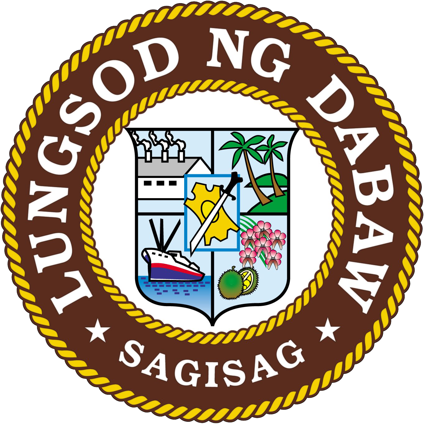 Davao City official seal.